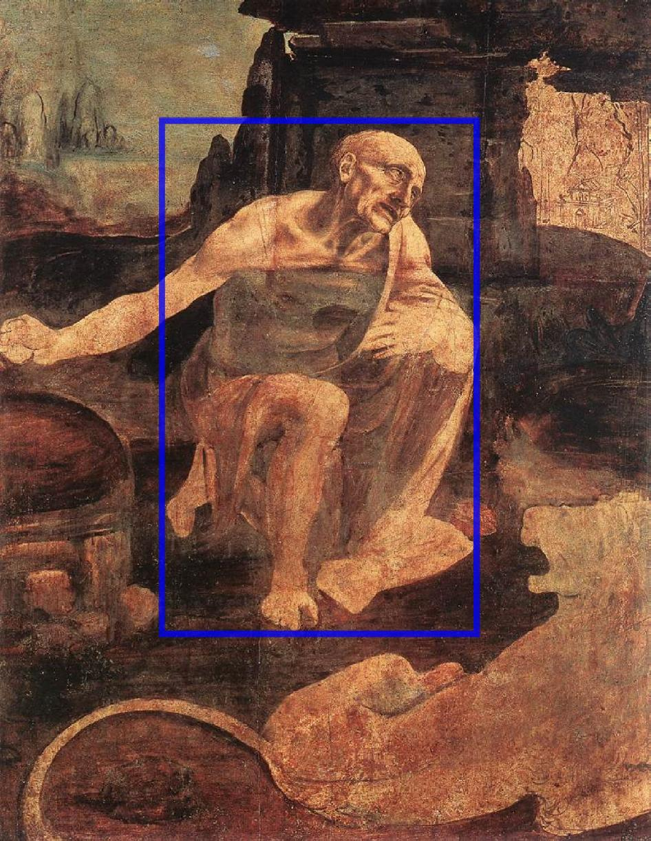 From Leonardo da Vinci's Saint Jerome, with a golden rectangle on the character.